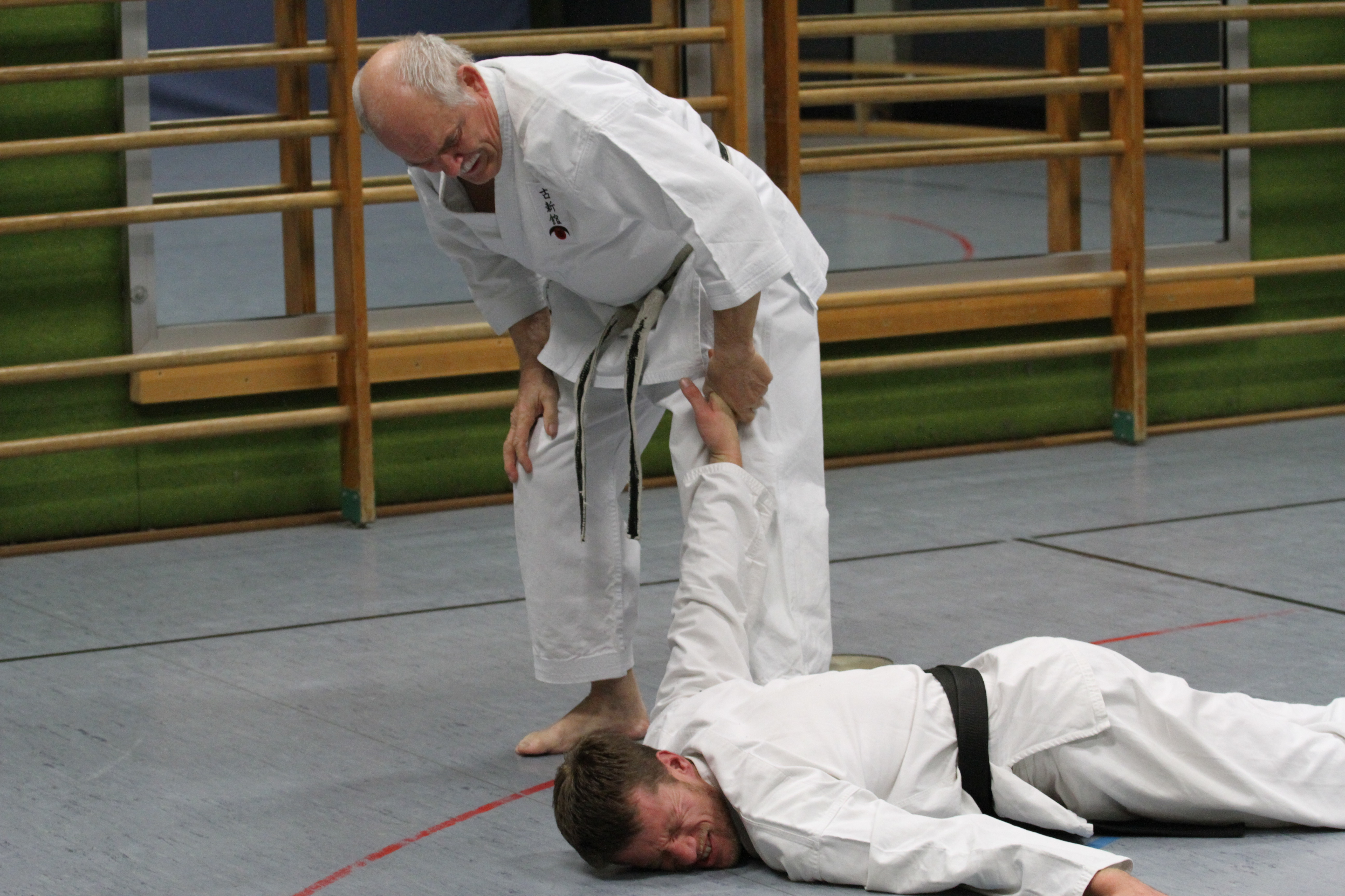 Albrecht Pflüger 8.Dan Shotokan Karate